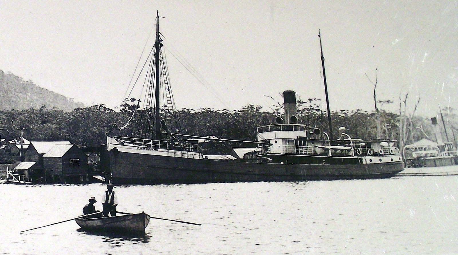 'Comboyne' (1911 - 1920) at Laurieton